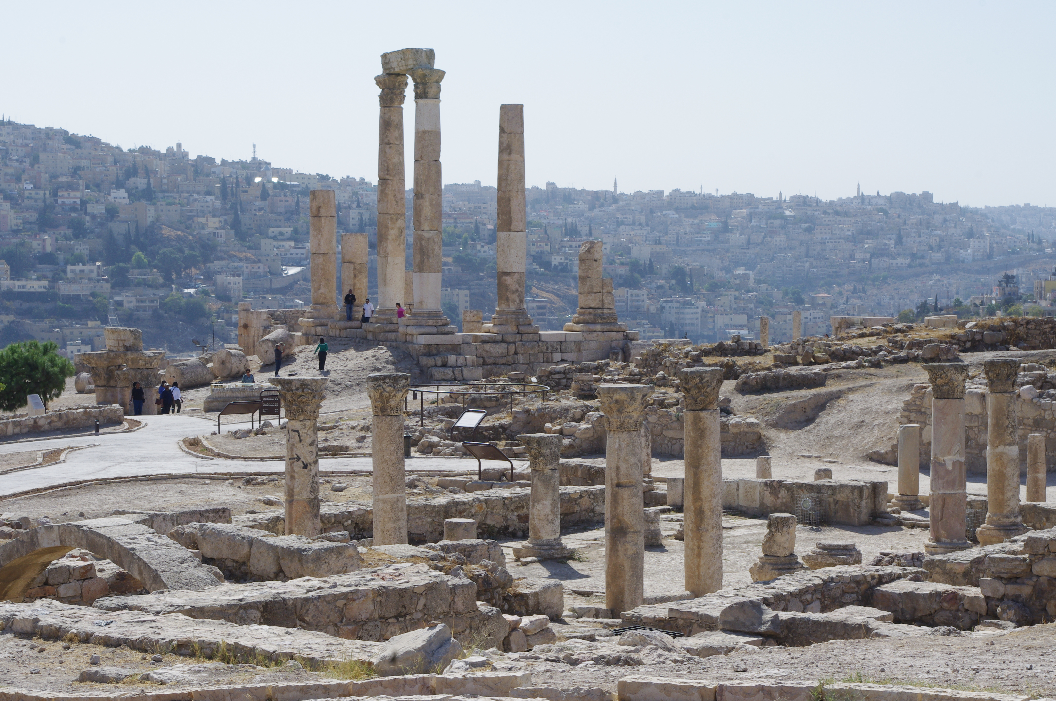 In the foreground is a Byzantine church built around 550 AD. In the background is a Roman temple to Hercules constructed in the early 2nd Century AD.